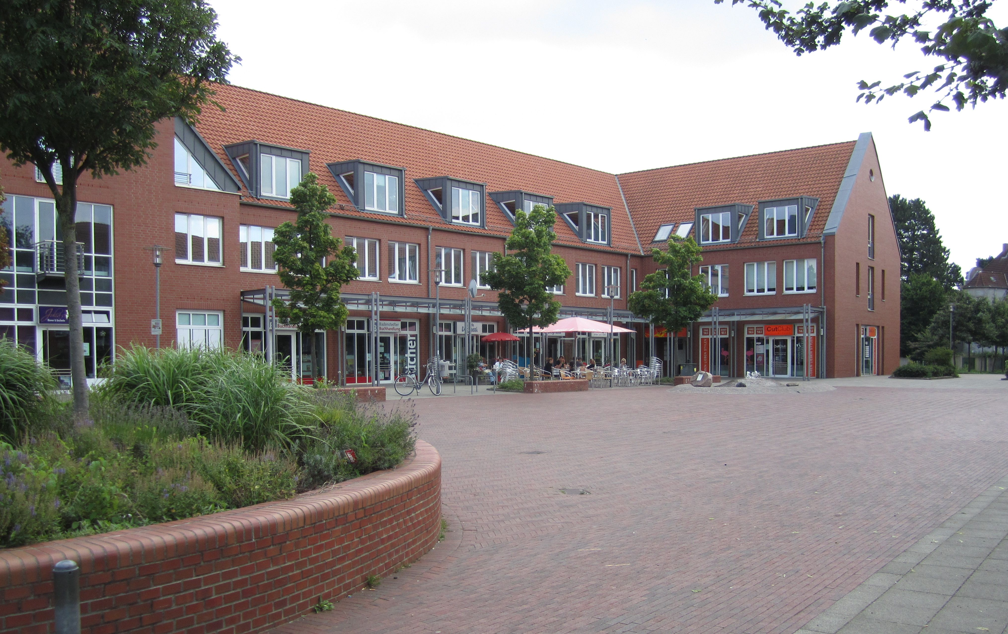 Market place in Badenstedt, district oh Hanover, Germany.